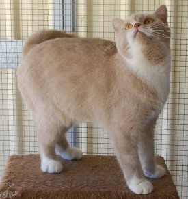 Fawn & White British Shorthair cat. Henry is a stud male who lives in Australia at Cuddleton British Shorthairs.